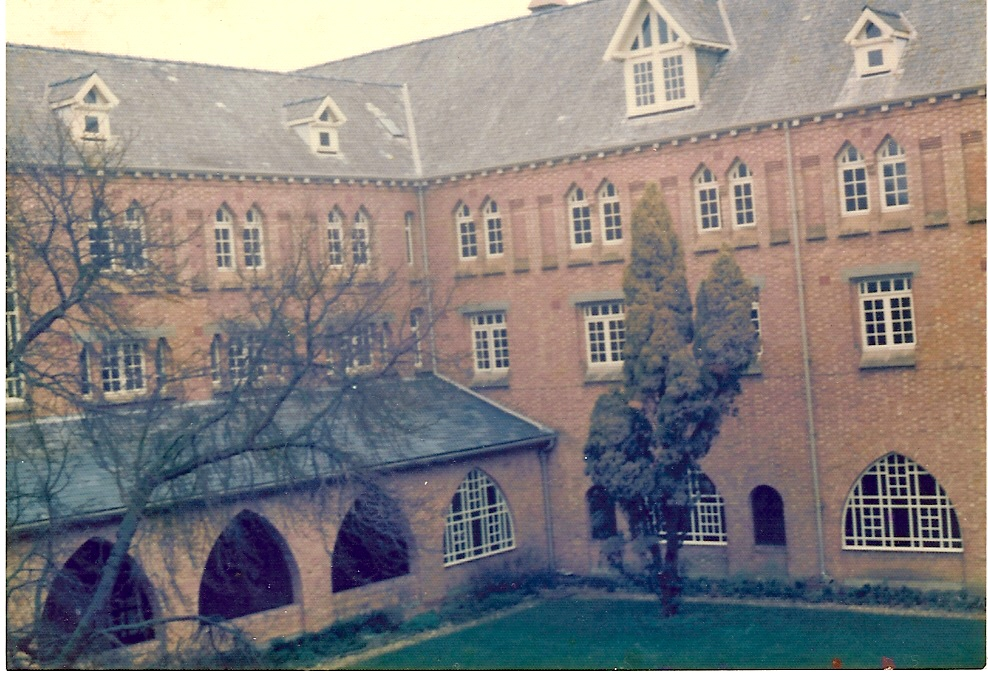 Quarr Abbey, Isle of Wight